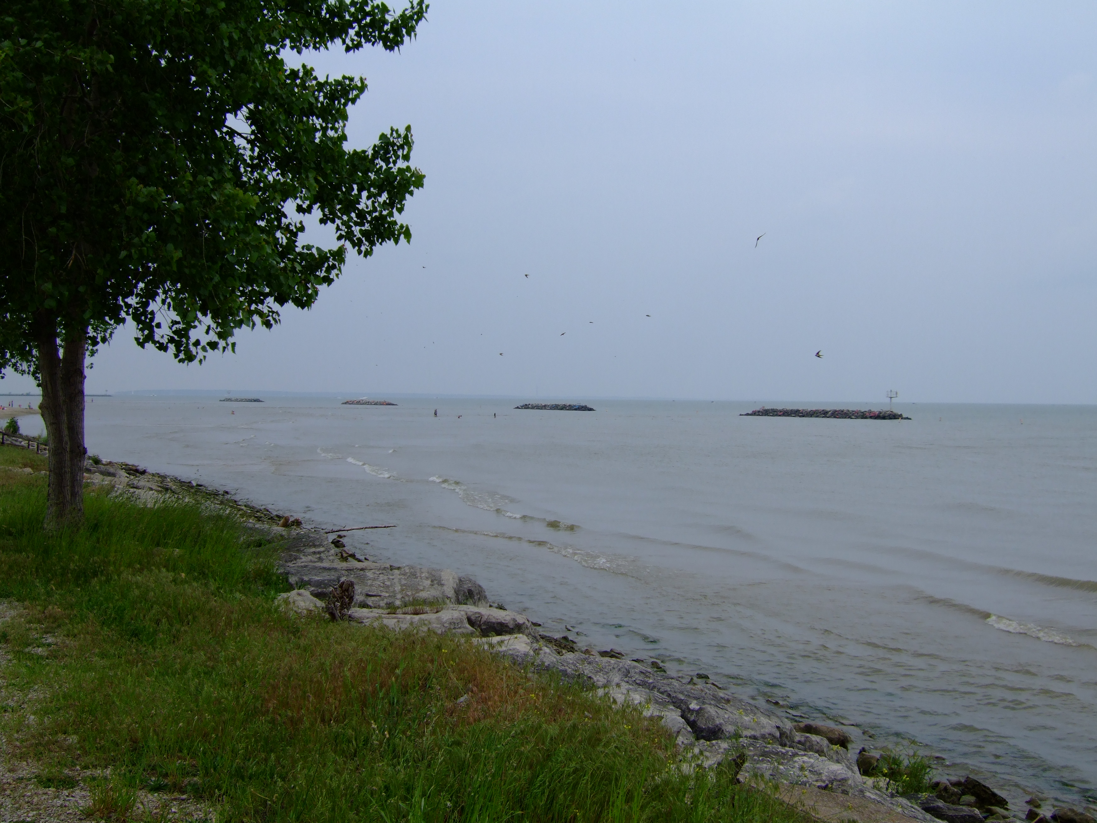 View of Lake Erie from East Harbor State Park, Ohio, USA.